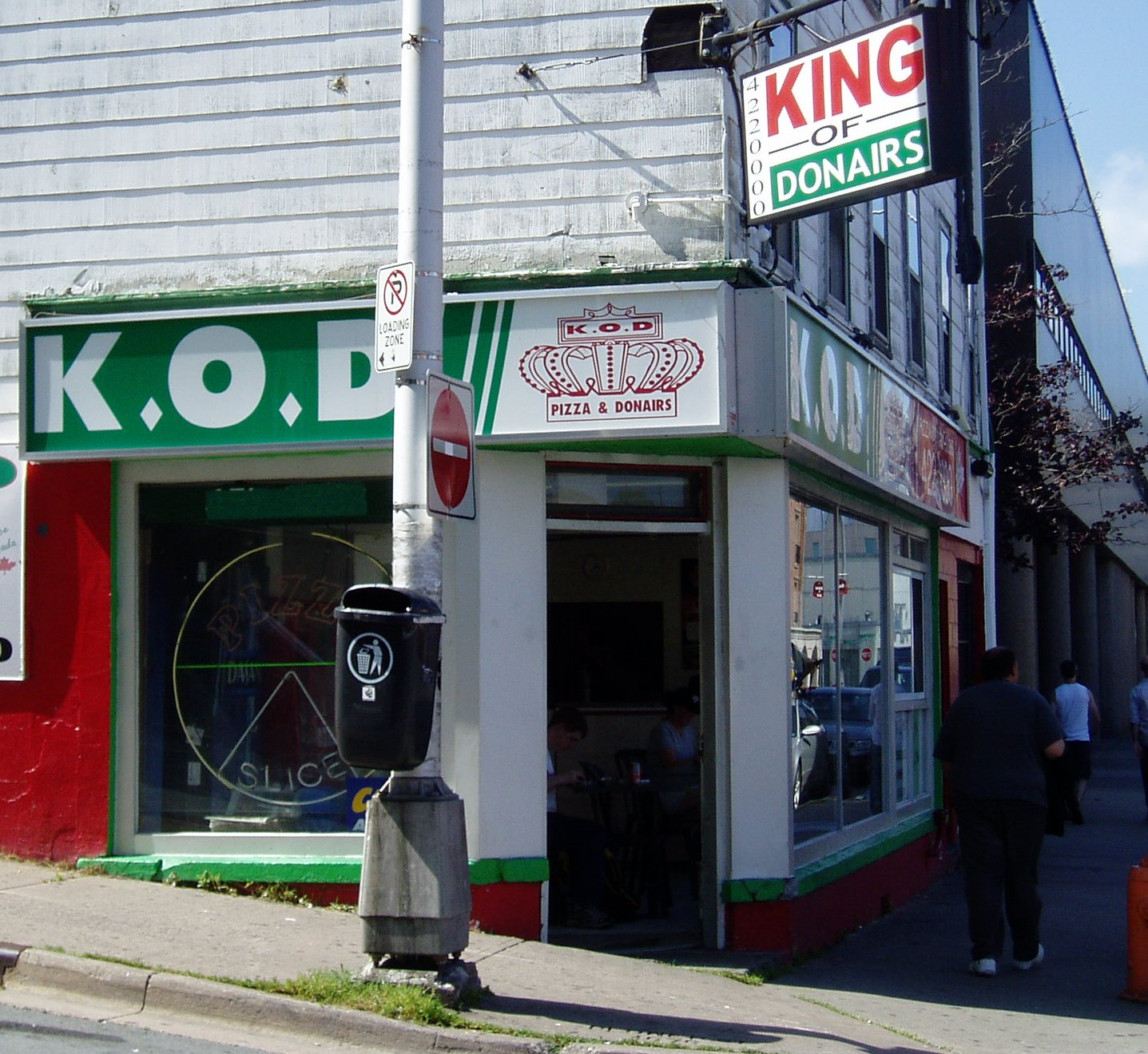 A King of Donair location. Taken by SimonP At "pizza corner", i.e. Blowers and Grafton Streets.